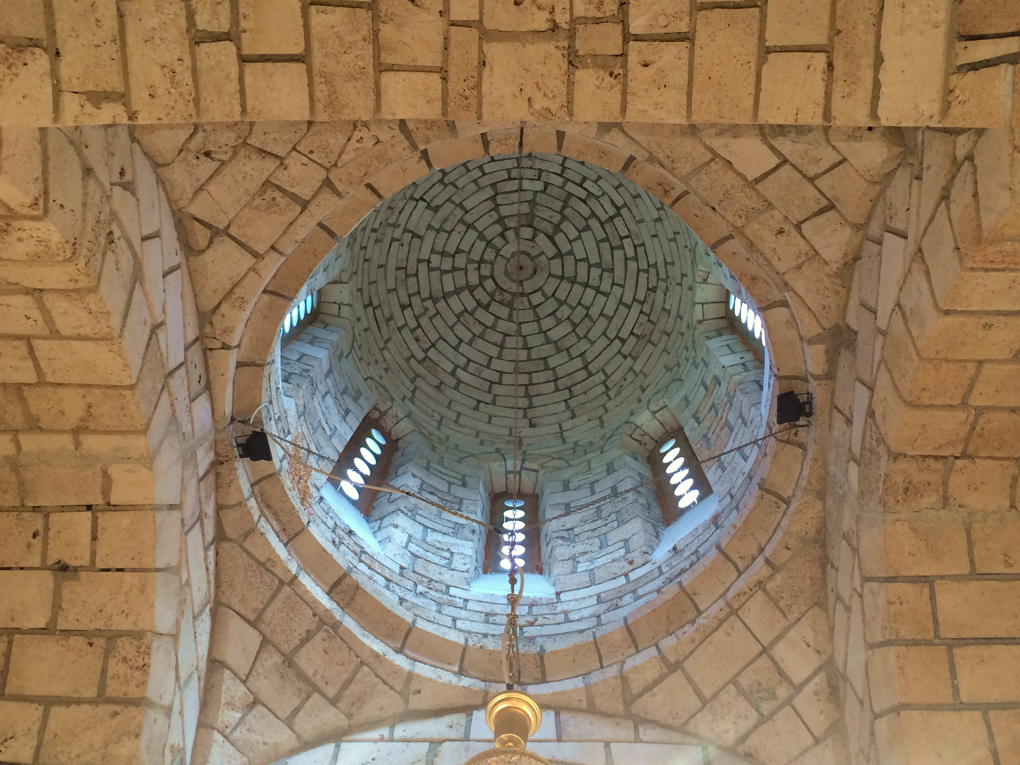 Image of the Mažići Monastery of Saint Georg, in the municipality of Priboj, southwestern Serbia.